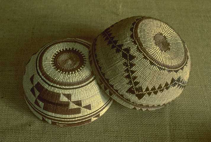 Baskets woven by Yurok Native Americans, California - from the collection of Redwood National Park